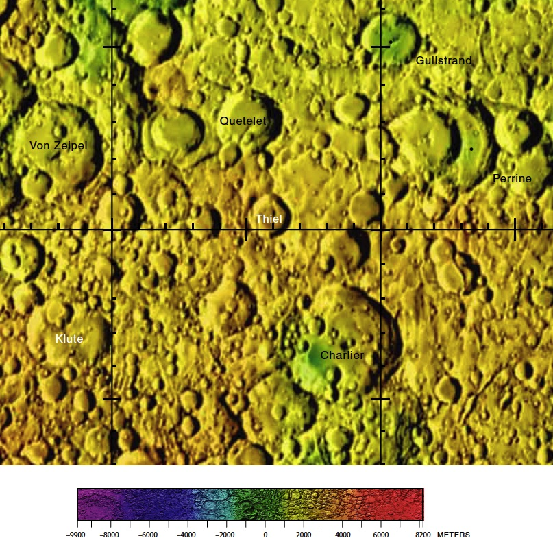 Part of the USGS far side lunar chart